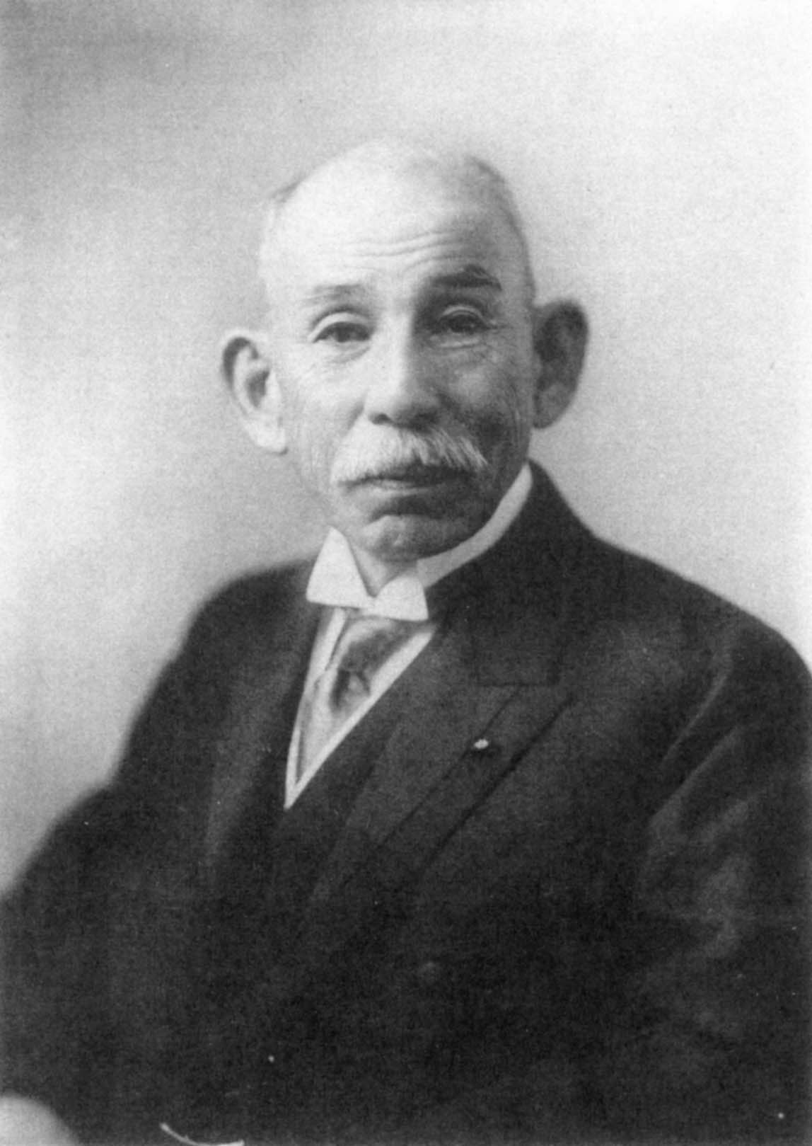 Portrait of the late Nobushige Hozumi.